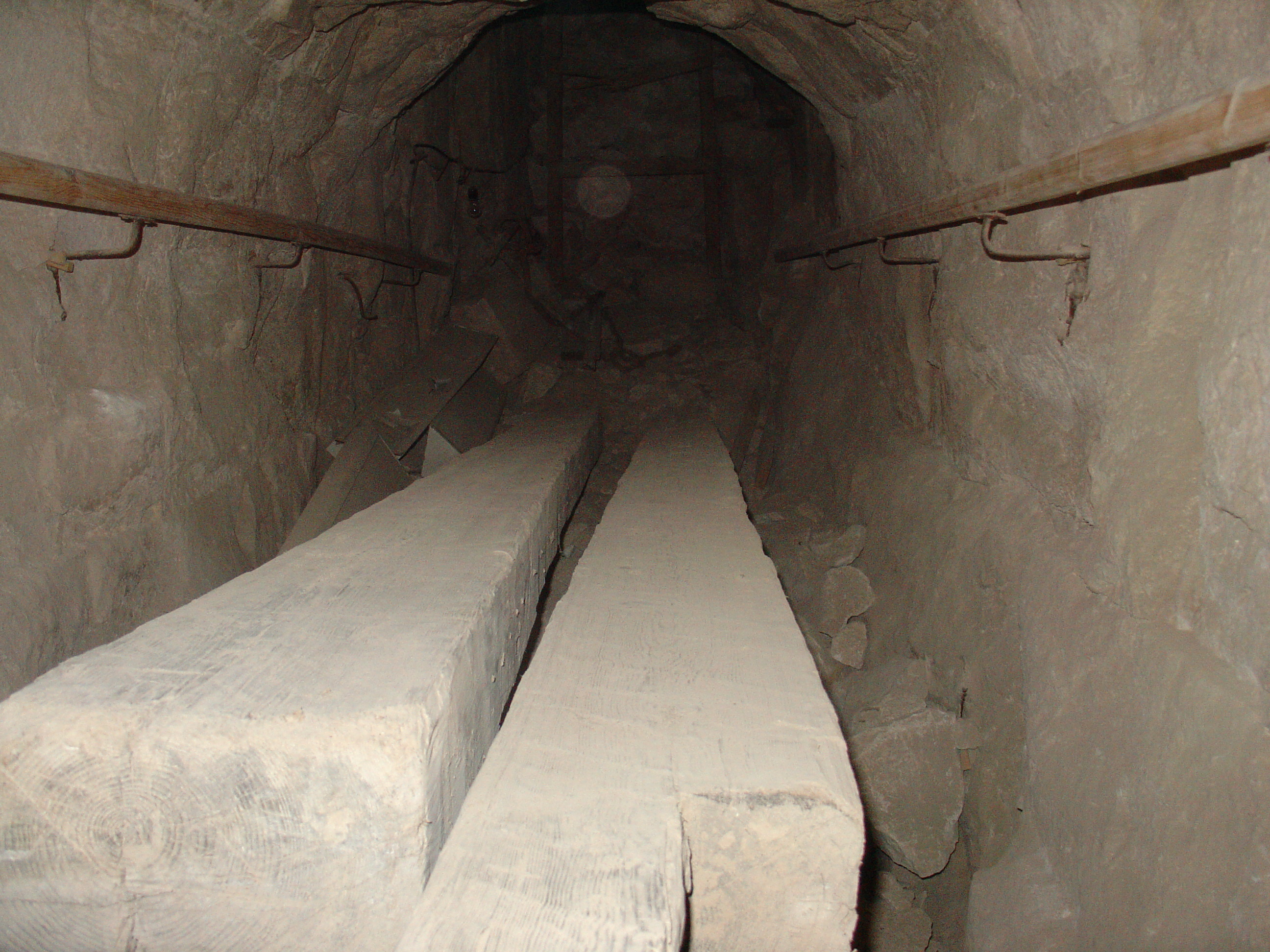 Wooden bars in the Bent Pyramid